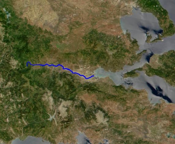 Spercheios river satellite map